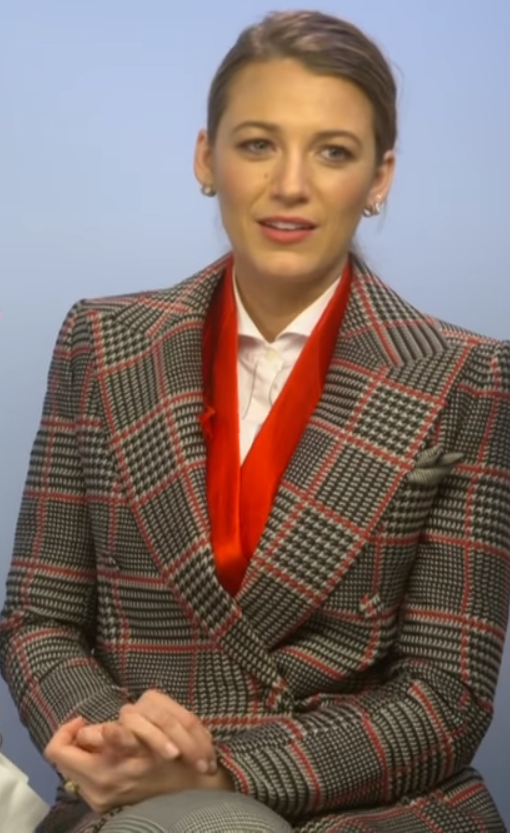 Anna Kendrick, Blake Lively and director Paul Feig reveal their specific tried-and-tested techniques for filming steamy sex scenes, how they built their on-screen chemistry, the secrets behind the movie’s shocking twists and the Anna Kendrick RAP SCENE you WON’T see in cinemas!